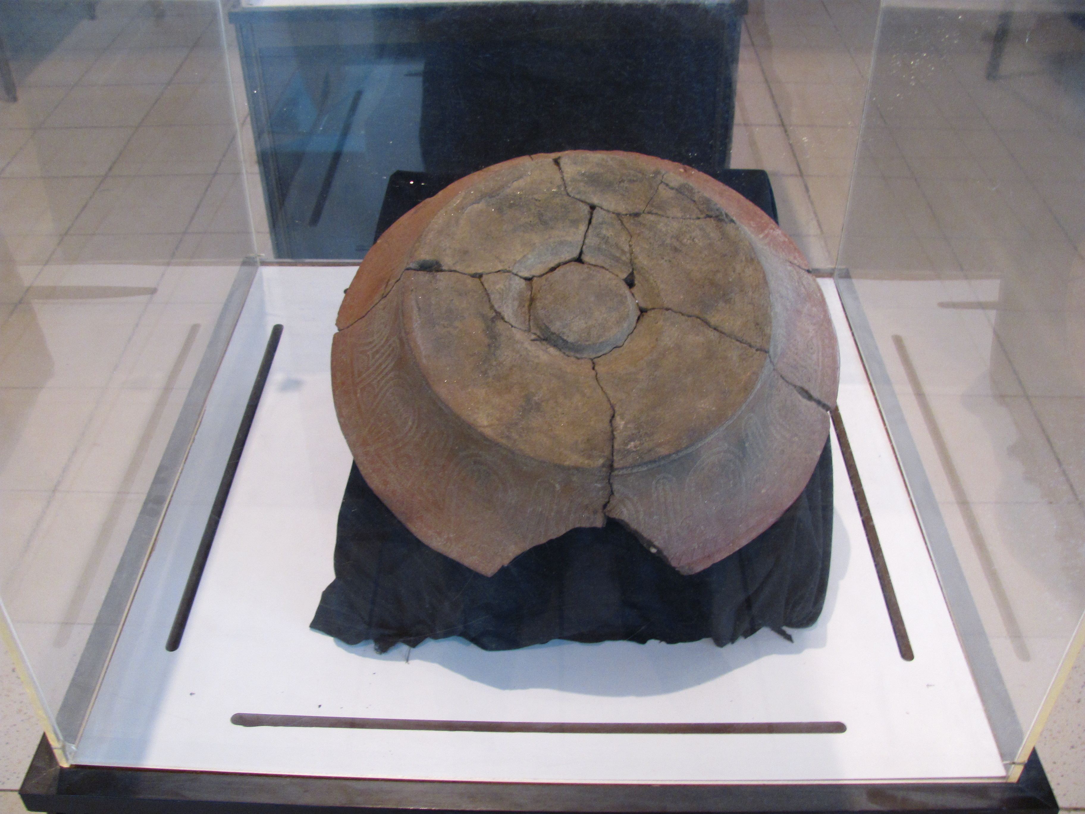 Lapita pottery, Vanuatu Cultural Centre, Port Vila, Vanuatu